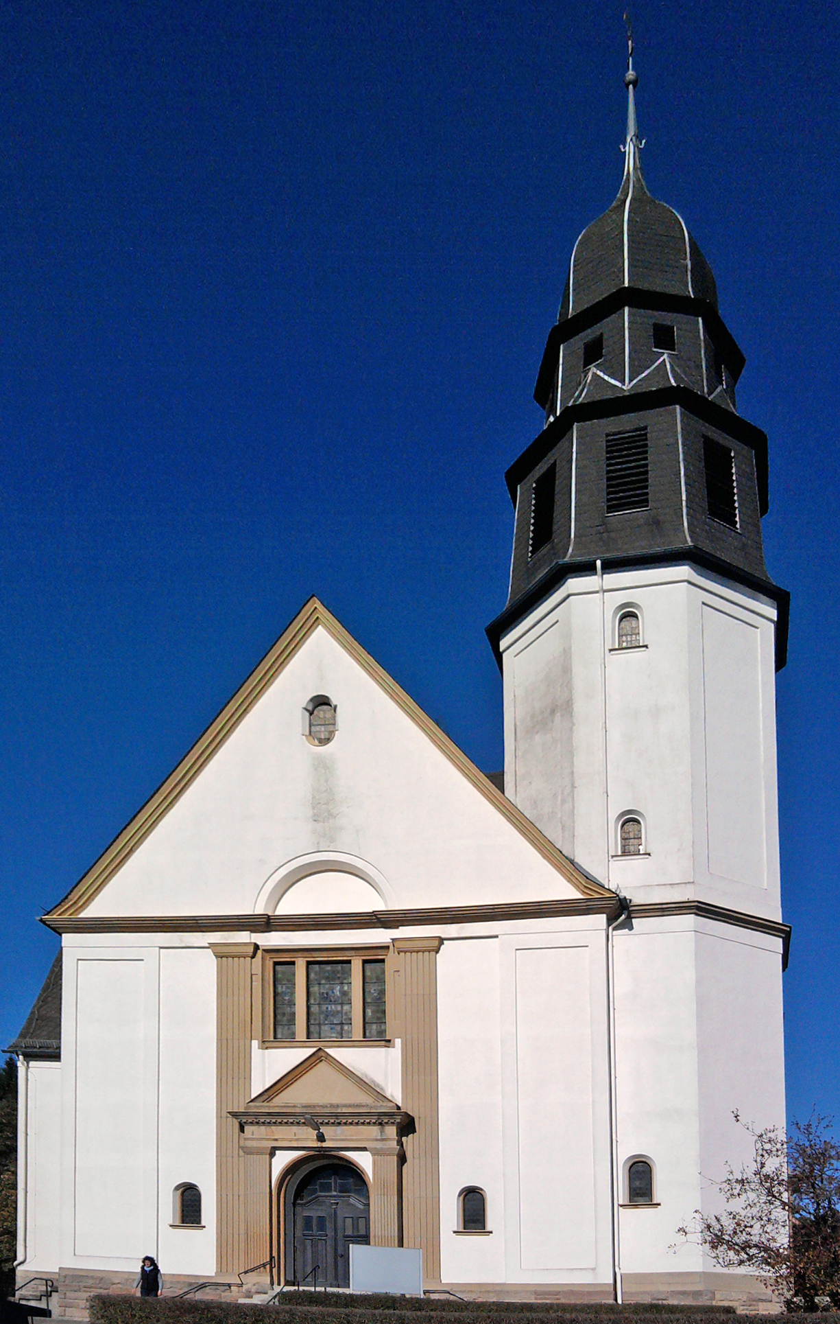 Exterior of the roman catholic church in Güdesweiler, Saarland